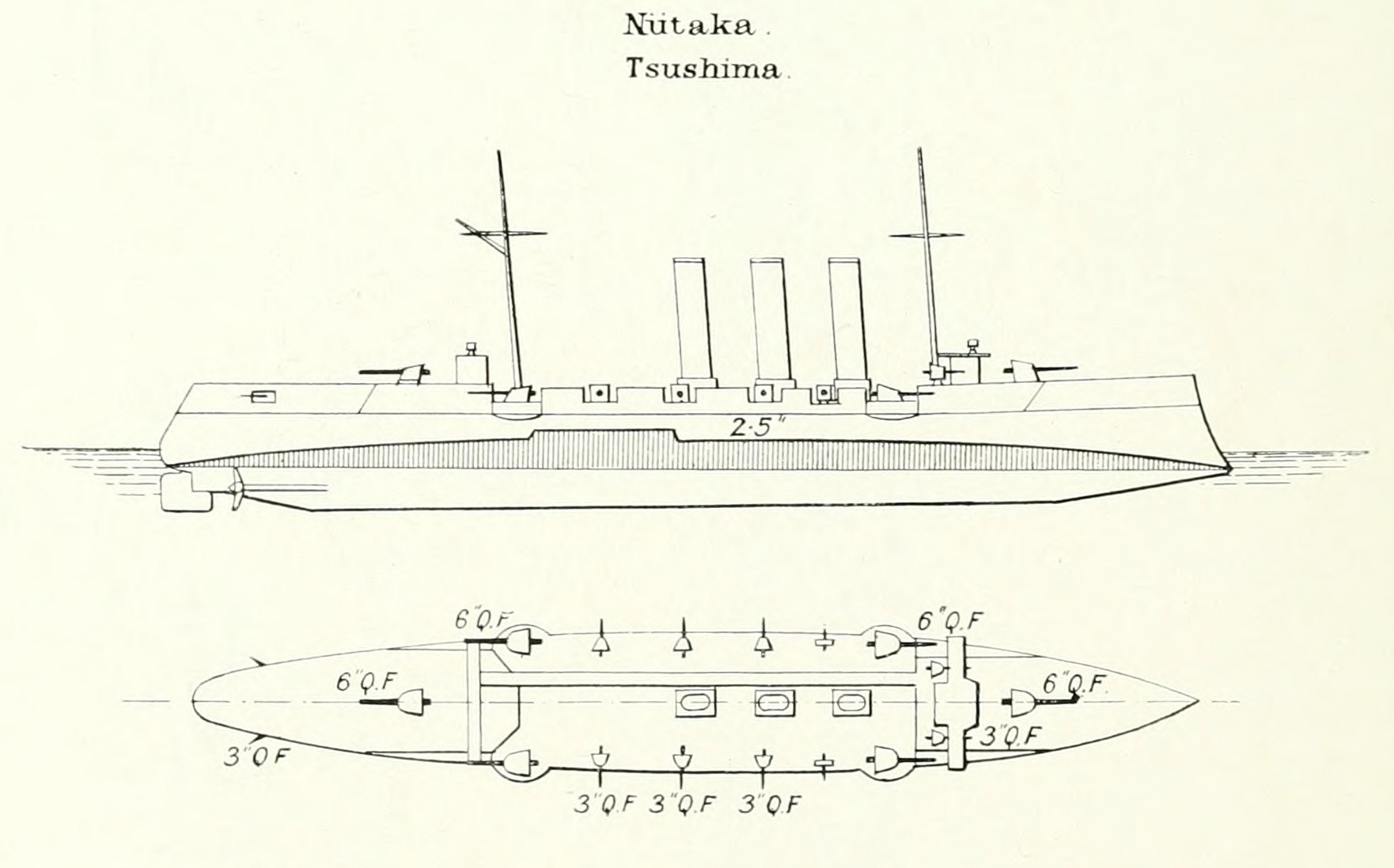 Sketch of the Japanese protected cruisers Tsushima class.